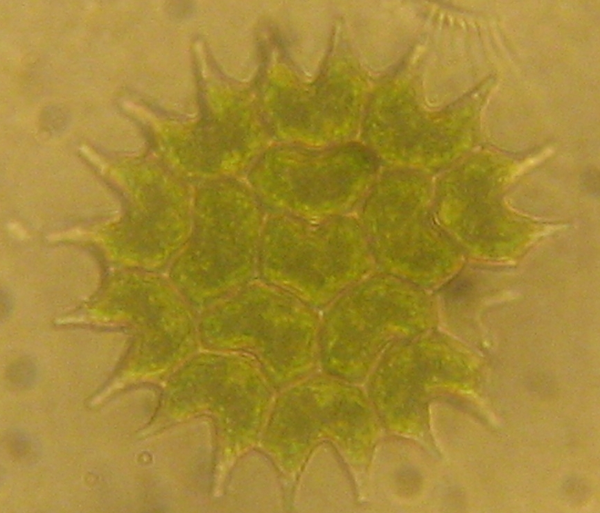 Almost complete (without one cell) coenobium of Pediastrum. Eutrophic lake phytoplankton. Northern Poland.